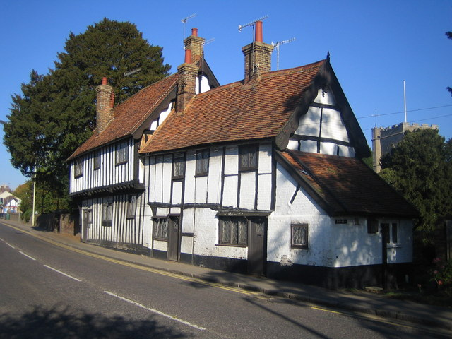 Northchurch: The High Street These half-timbered cottages, one with a jettied front, date from Tudor times. They appear idyllic, but this road was the busy arterial A41 until the Berkhamsted bypass was built, and although the road has now been downgraded to the A4251, the local traffic using it is still heavy. The tower of 590845 can be seen over the trees on the right.